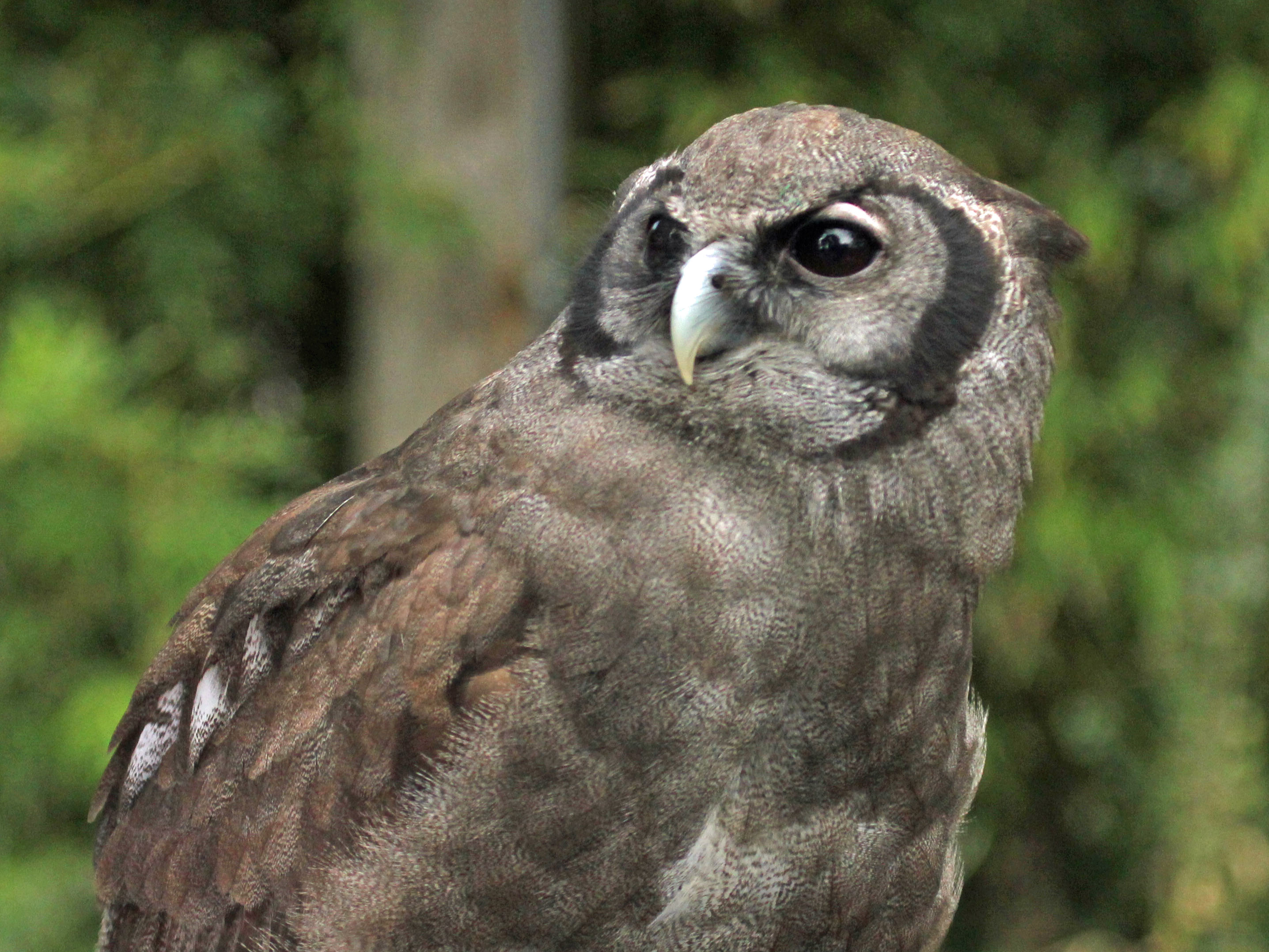 Verreaux's Eagle Owl (Bubo lacteus) - San Diego Zoo